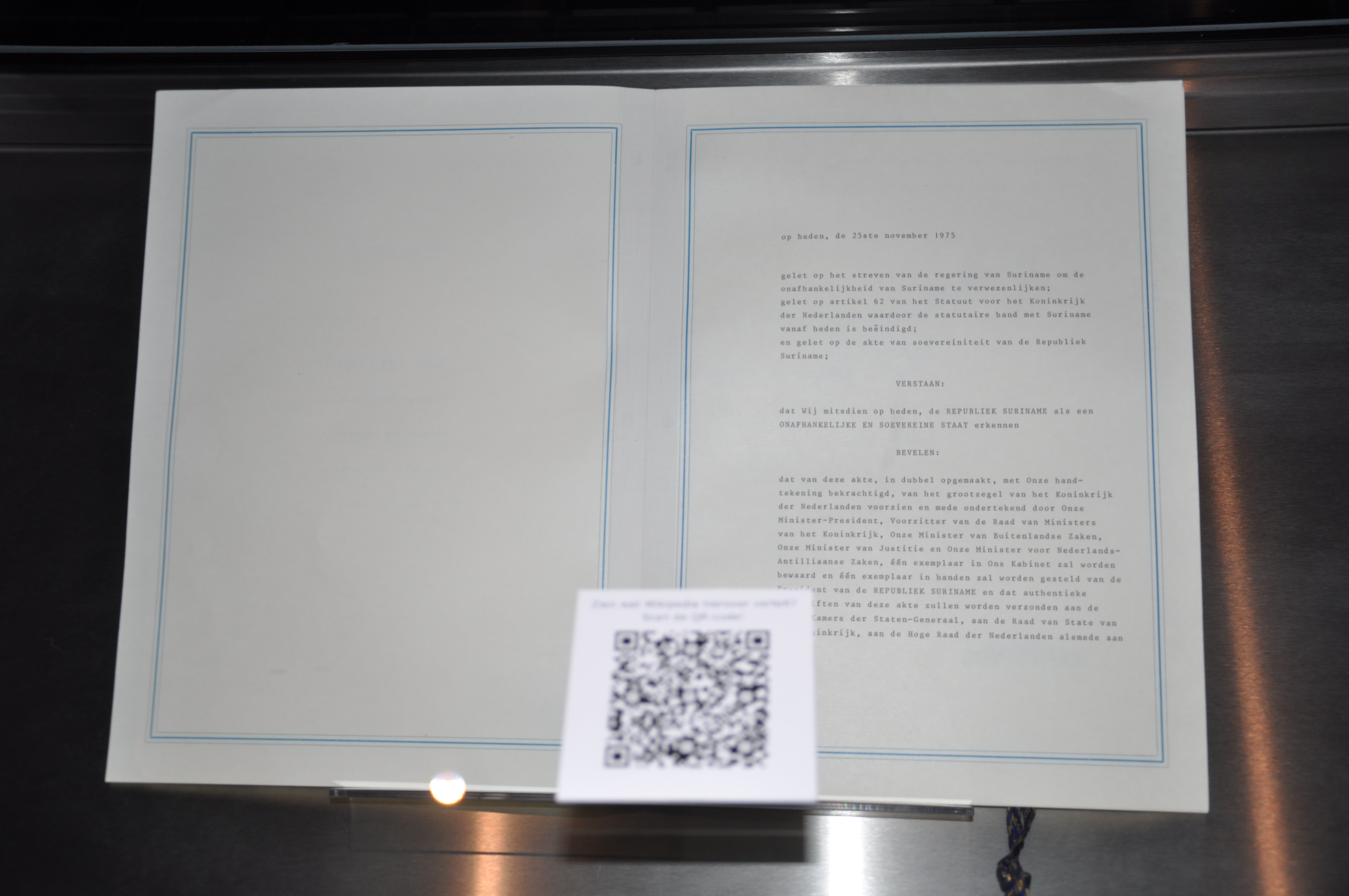 Declaration of Independence of Surinam (1975). Location of object is the Verdieping van Nederland. Photo taken during the Backstage event ("Achter de schermen") for Wikipedians at the National Library and National Archives of the Netherlands on 8th June 2013